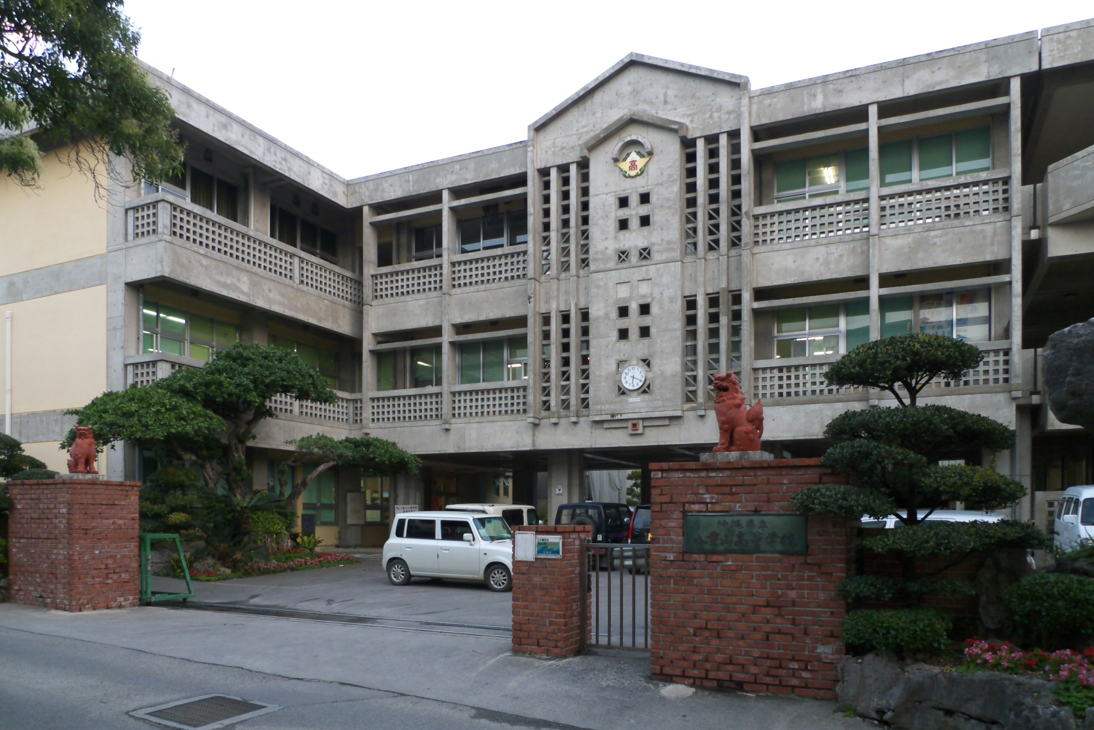 Okinawa Prefectural Yaeyama High School in Ishigaki City, Okinawa Prefecture, Japan